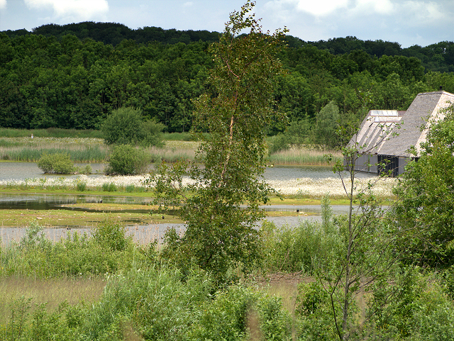 Meadow Lake and Visitor Village, Brockholes Nature Reserve